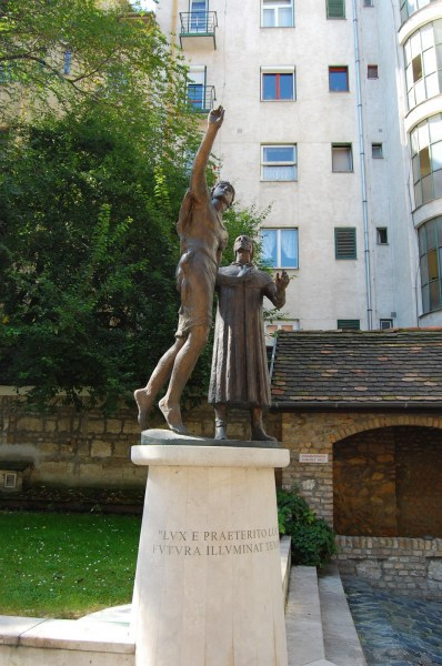 Vergilius and Dante